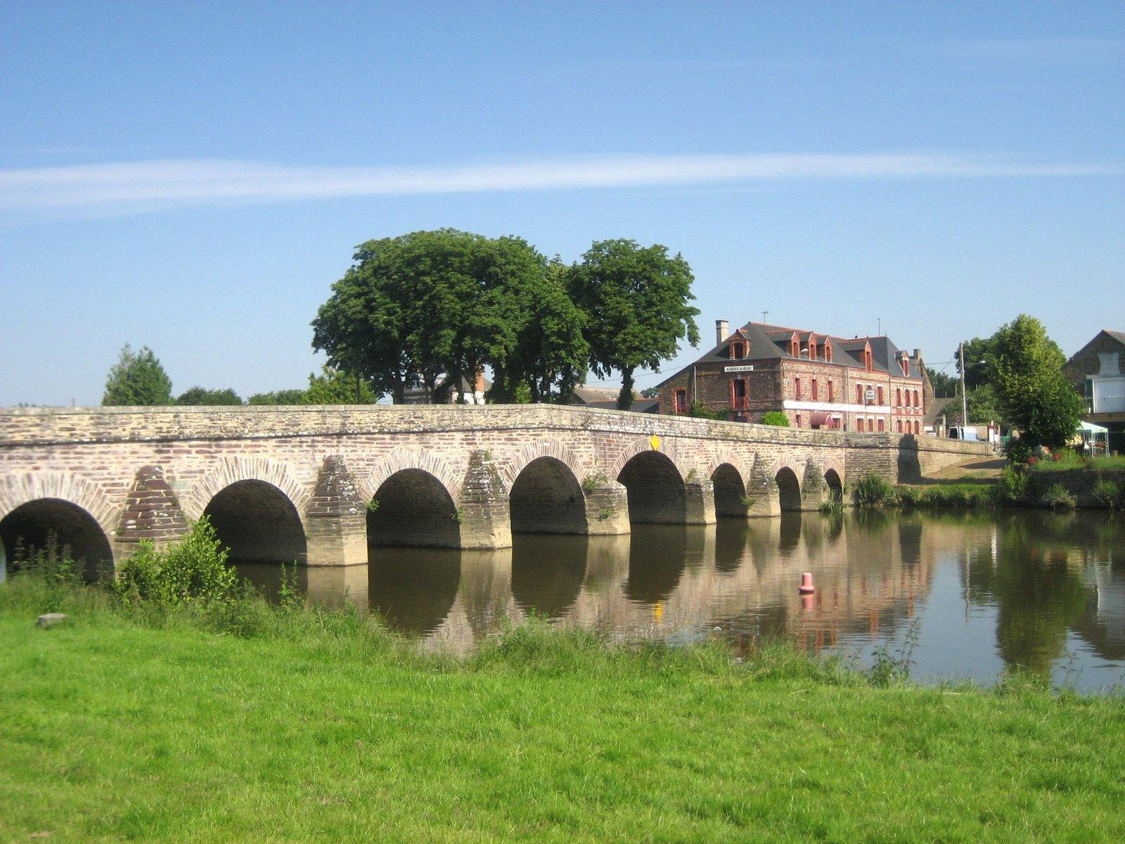 Bridge of Pont-Réan, Bretagne, France